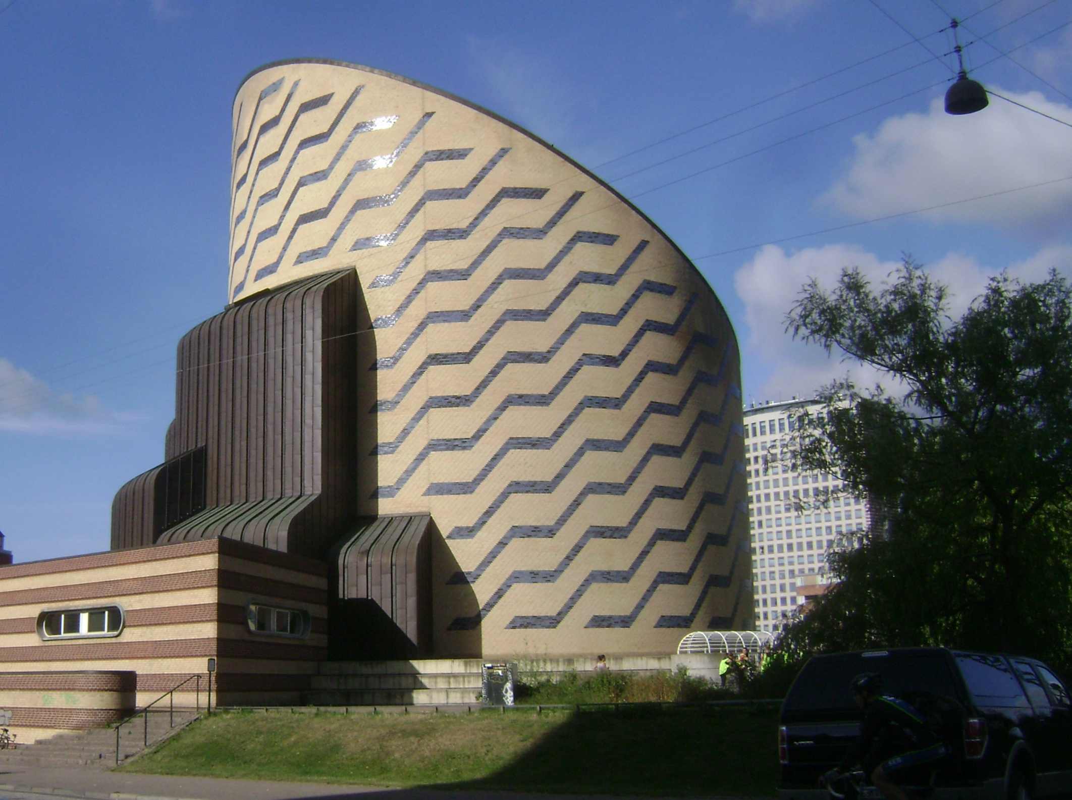 Denmark. Capital Region. Copenhagen